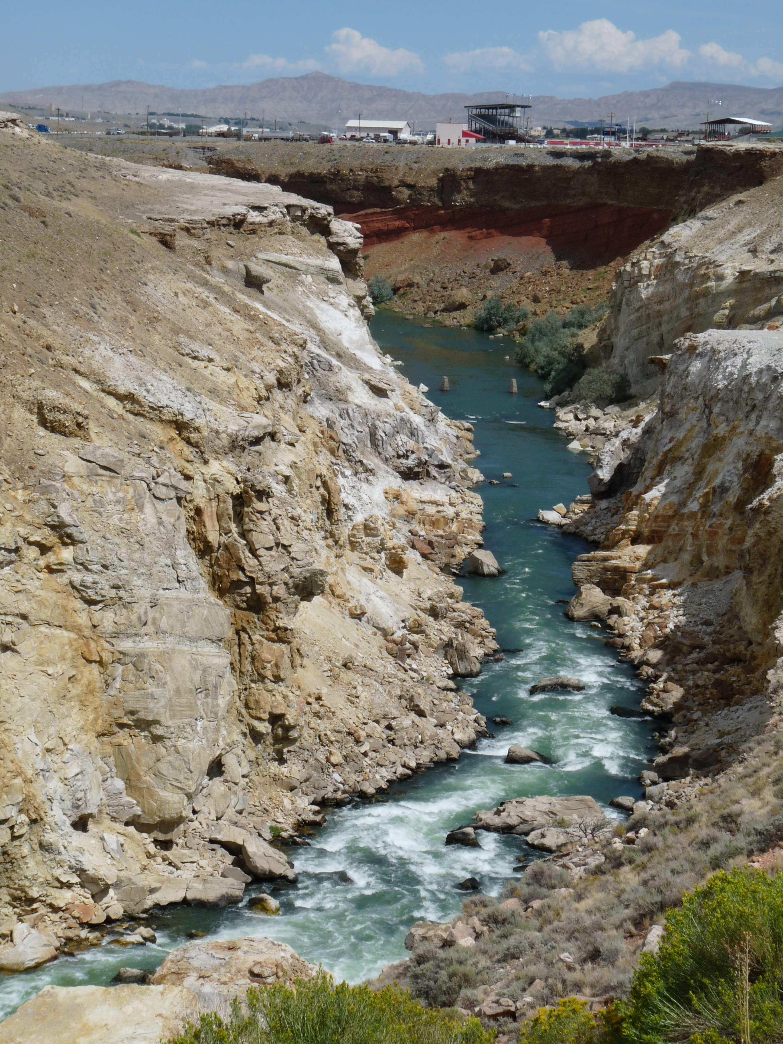 Colter's Hell is an area of thermal features on the Shoshone River just west of Cody, Wyoming. Today the only thermal activity is steam vents, but in the winter of 1807 when John Colter saw it, it had active geysers. Colter's account of the place was the earliest account by a white man of a place in Wyoming. In 1973 the site was listed on the National Register of Historic Places. At the top of the photo is the west end of Cody, with the grandstand at Stampede Park prominent.